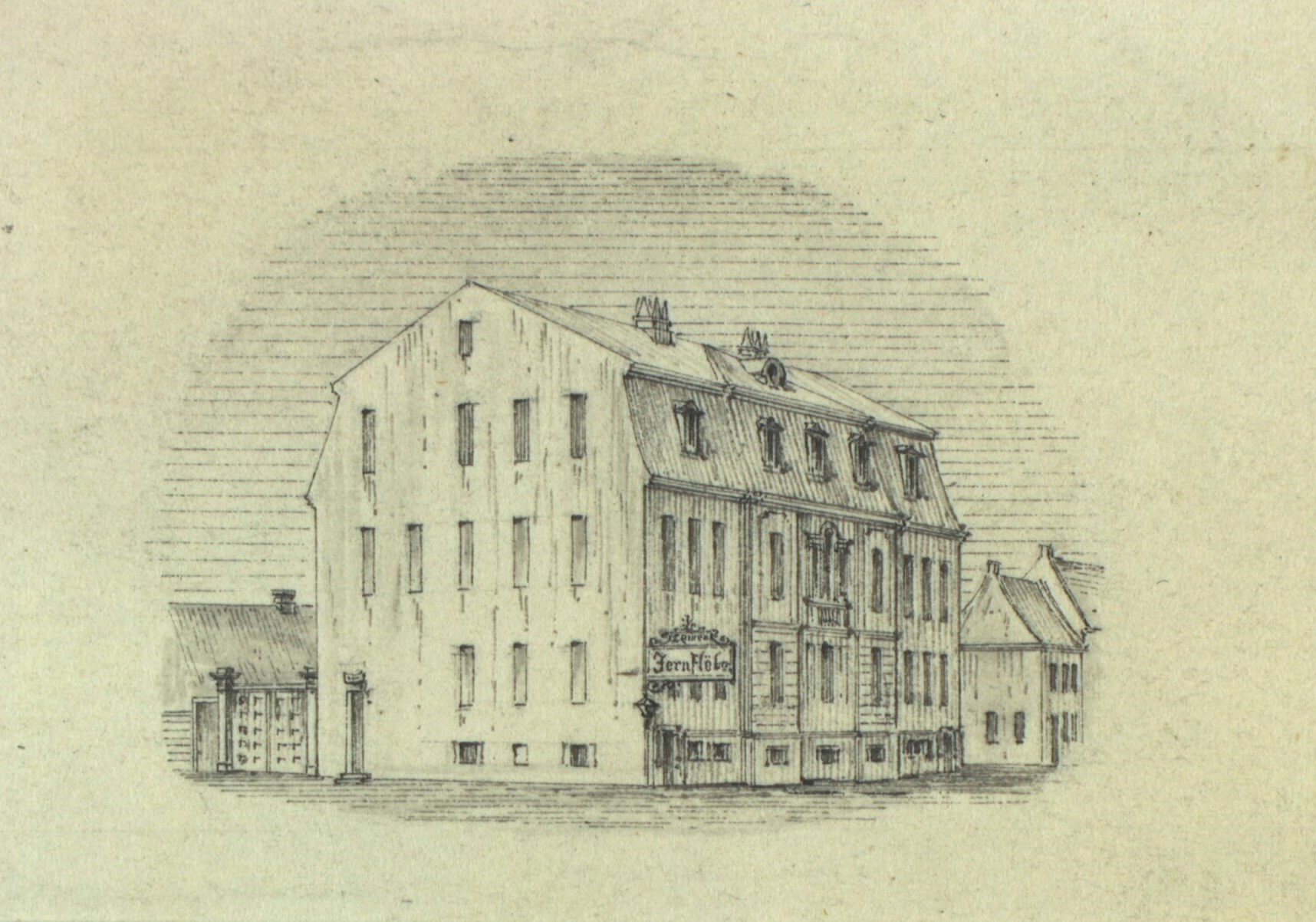 Stanleys Gård in Copenhagen, Denmark